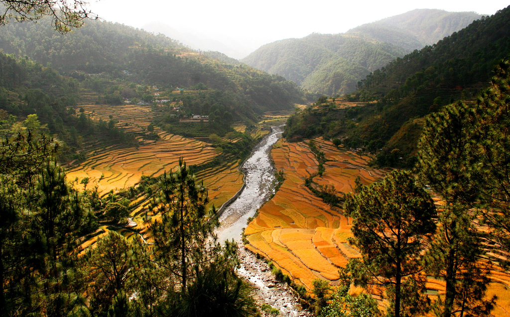 Terrace fields amidst Himalayan ranges, near Rishikesh